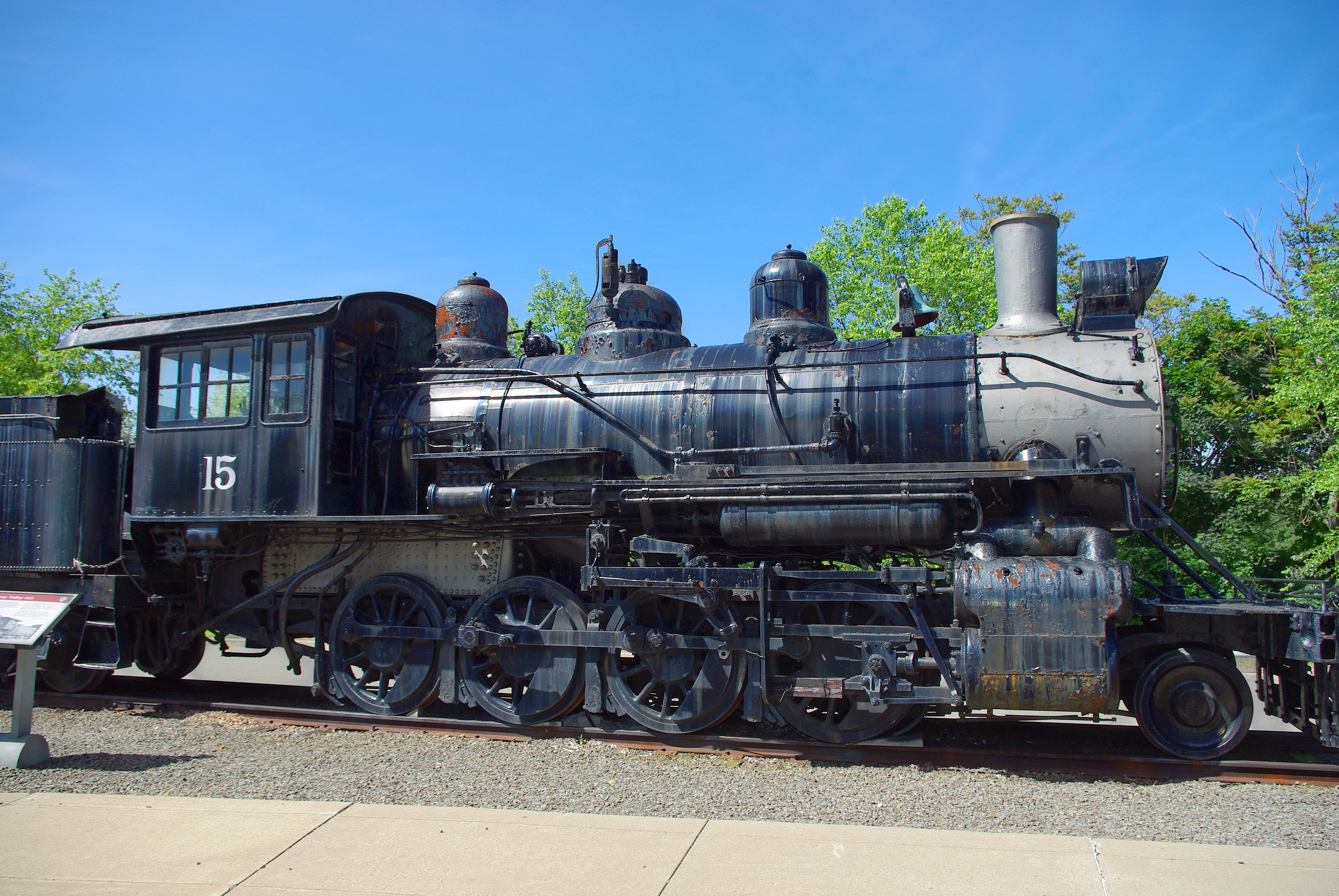 Baldwin Rahway Valley #15 locomotive, at Steamtown National Historic Site